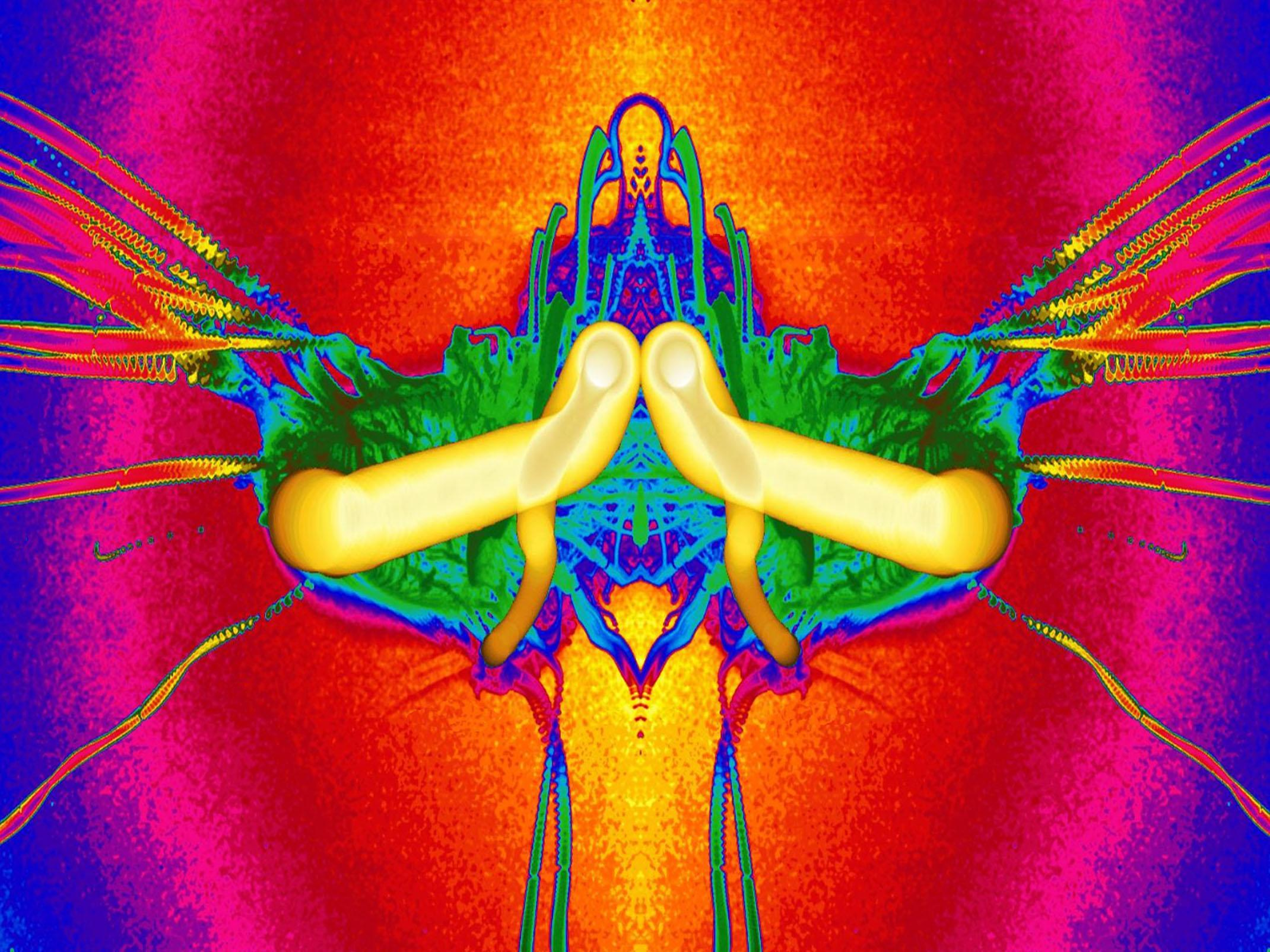 (This is an artificially symmetrized photograph i.e. a mirror image of itself and should not be mistaken for a real image.) Because of the absence of gravity, fuels burning in space behave very differently from how they do on Earth. In this image, a 3-millimeter diameter droplet of heptane fuel burns in microgravity, producing soot. When a bright, uniform back-light is placed behind the droplet and flame and recorded by a video camera, the soot appears as a dark cloud. Image processing techniques can then quantify the soot concentration at each point in the image. On the International Space Station, the NASA Flame Extinguishment Experiment (FLEX) examines the combustion of such liquid fuel droplets. This colorized gray-scale image is an artificially symmetrized composite of the individual video frames of the back-lit fuel droplet. The bright yellow structure in the middle is the path of the droplet, which becomes smaller as it burns. Initial soot structures (in green) tend to form near the liquid fuel. These come together into larger and larger particles which ultimately spiral out of the flame zone in long, twisting streamers.